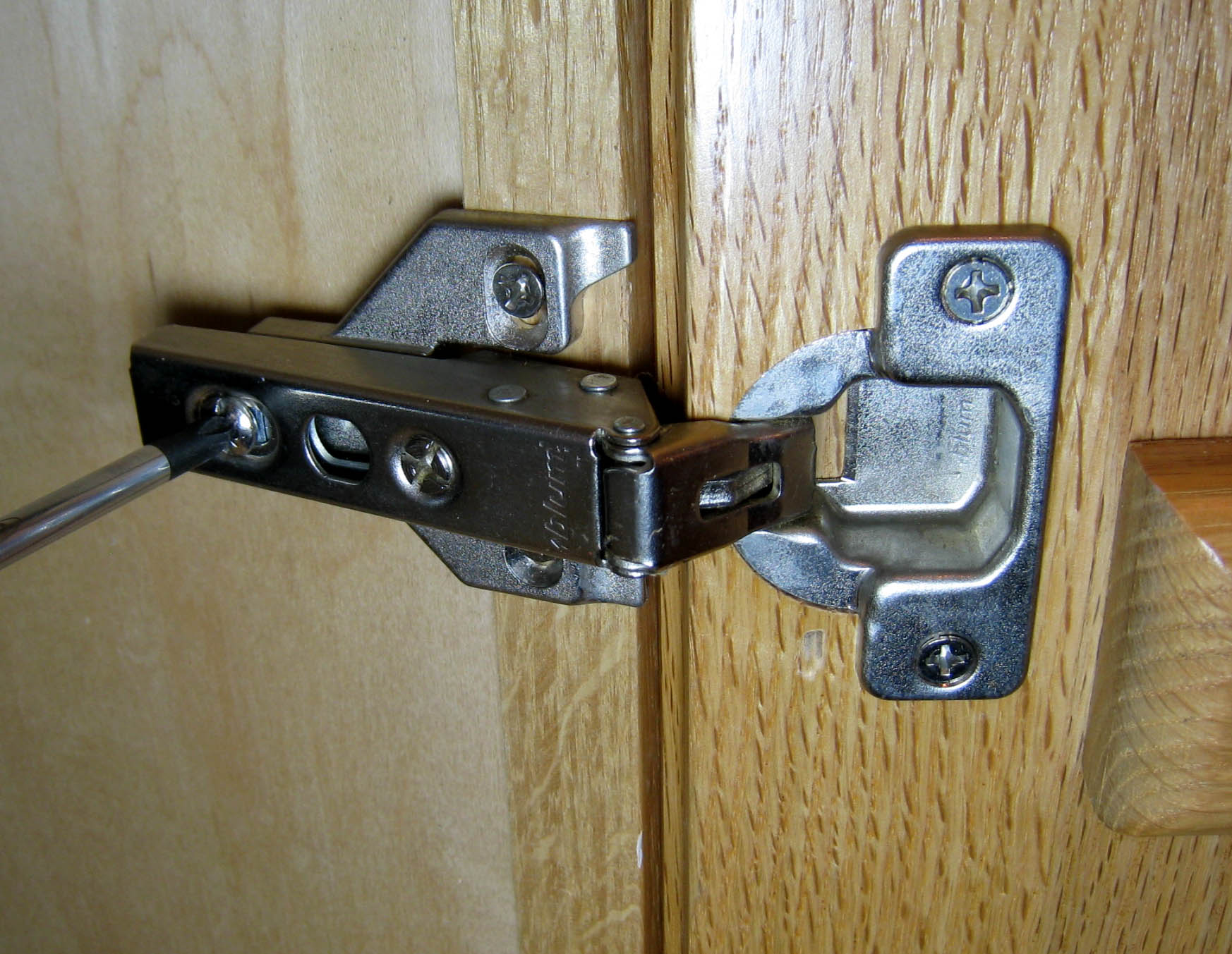 A Euro style cabinet hinge showing in-out adjustment screw.